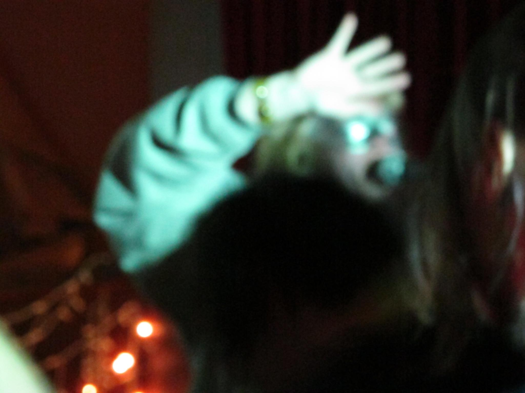 The Futurians